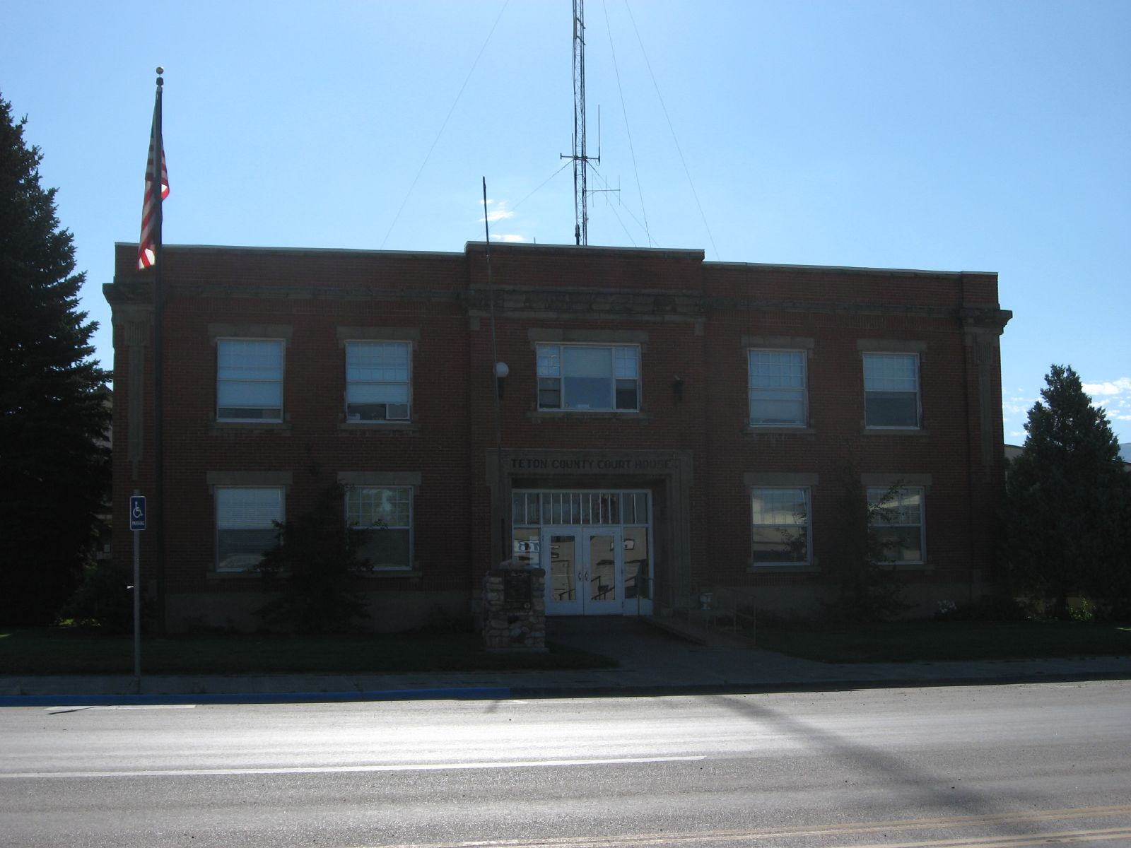 Front of the Teton County Courthouse, located on Main Street in Driggs, Idaho, United States. Built in 1924, the courthouse is listed on the National Register of Historic Places.